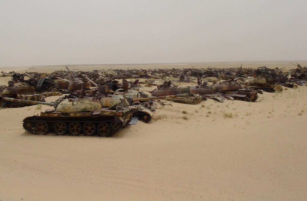 Iraqi tanks in disrepair in Kuwaiti dessert probably on the highway of death